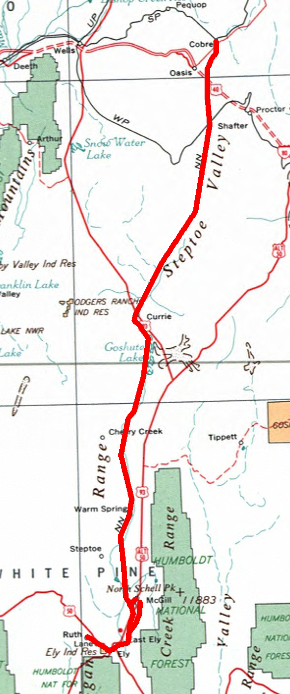 map of the Nevada Northern Railway based on the US National Atlas 1970